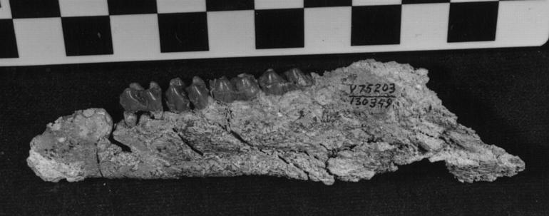 Haplohippus texanus jaw, University of California Museum of Paleontology